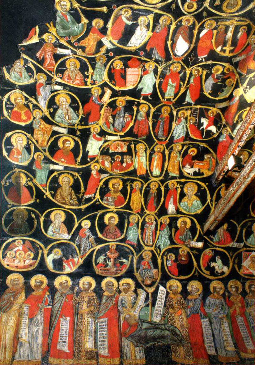 Fresco "Jesse's Tree". Nativity Church, Arbanassi